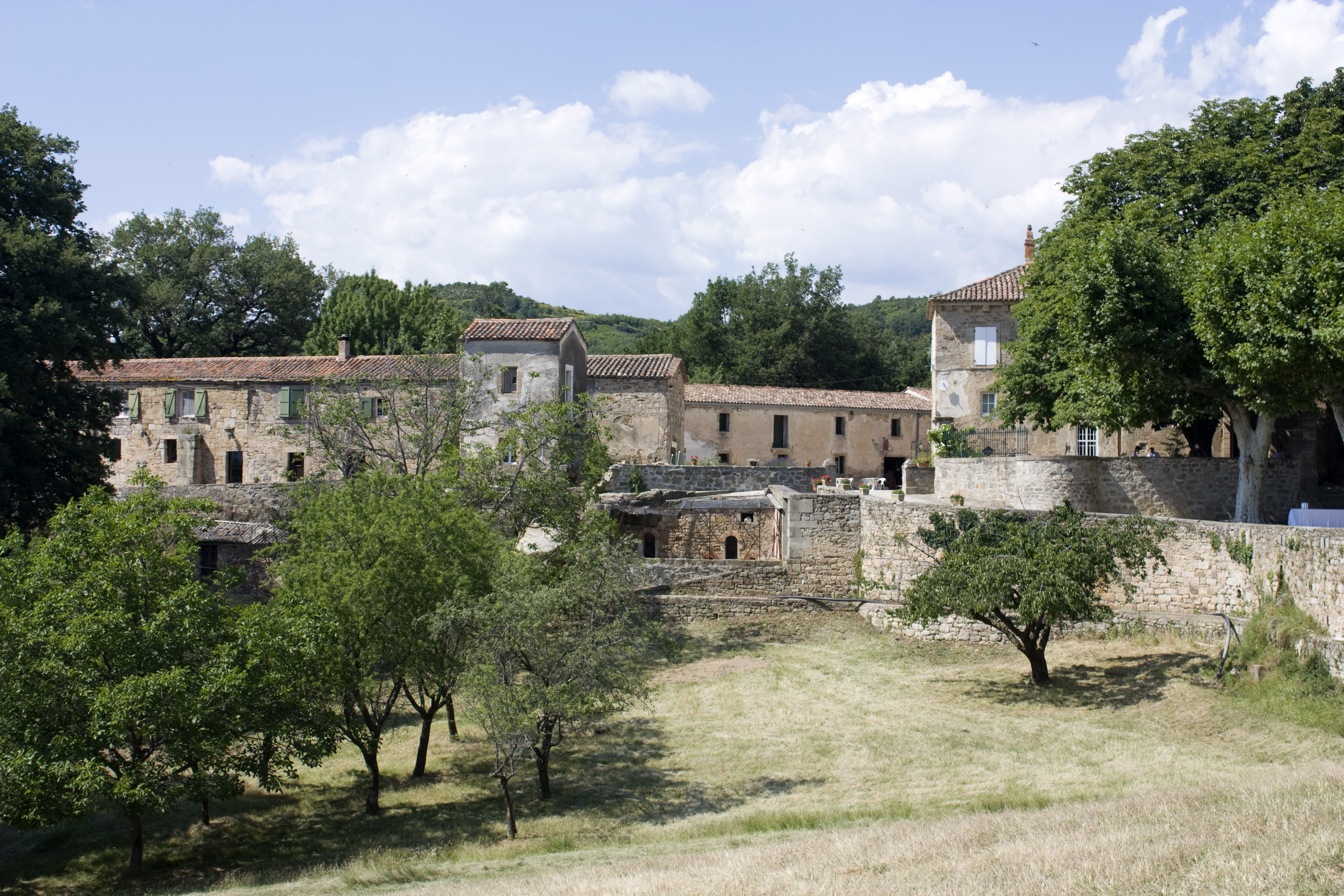 Farm buildings built after the Revolution to the exploitation of the priory domain.